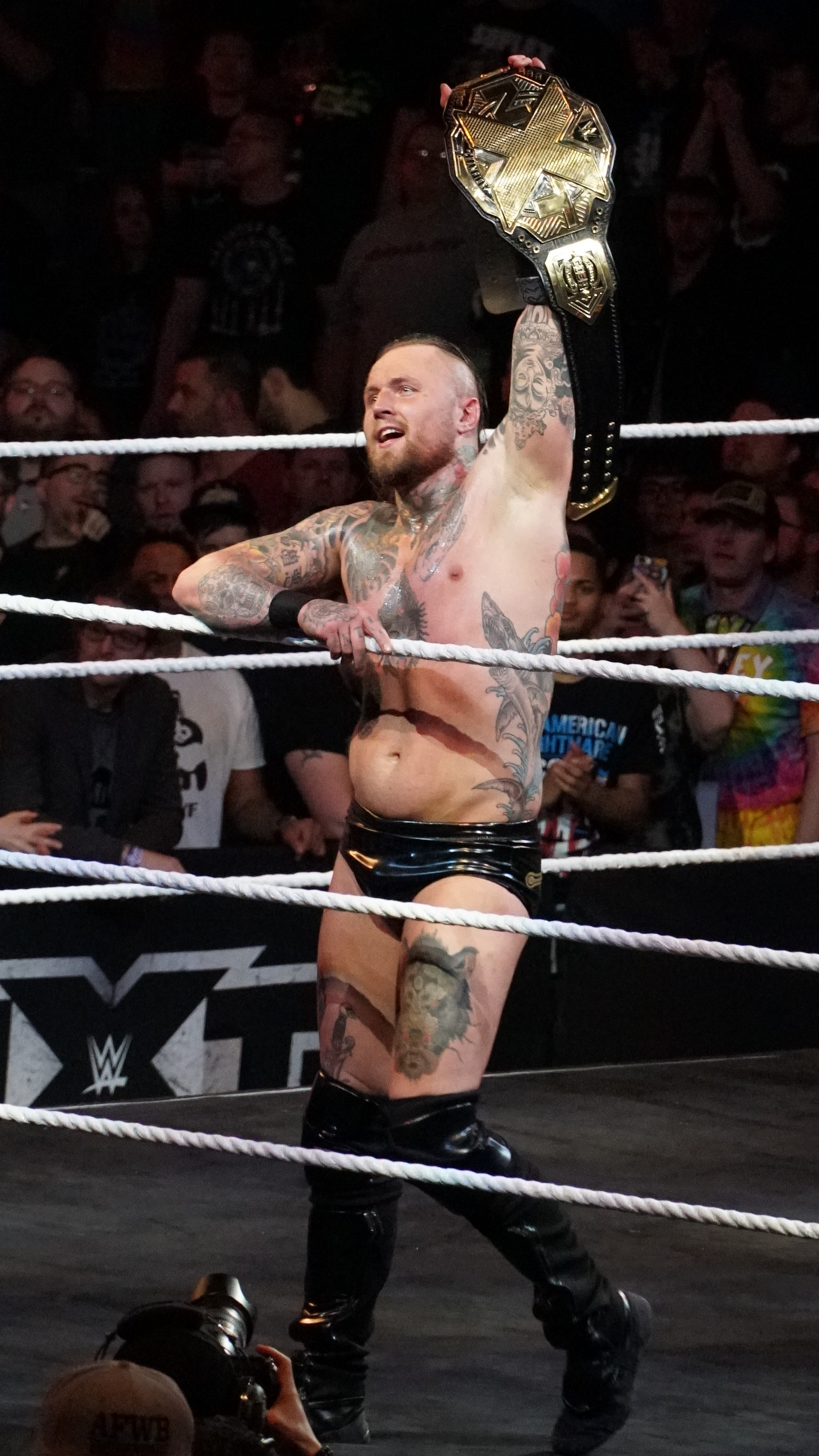 Aleister Black after winning the NXT Championship in April 2018 at NXT TakeOver: New Orleans.